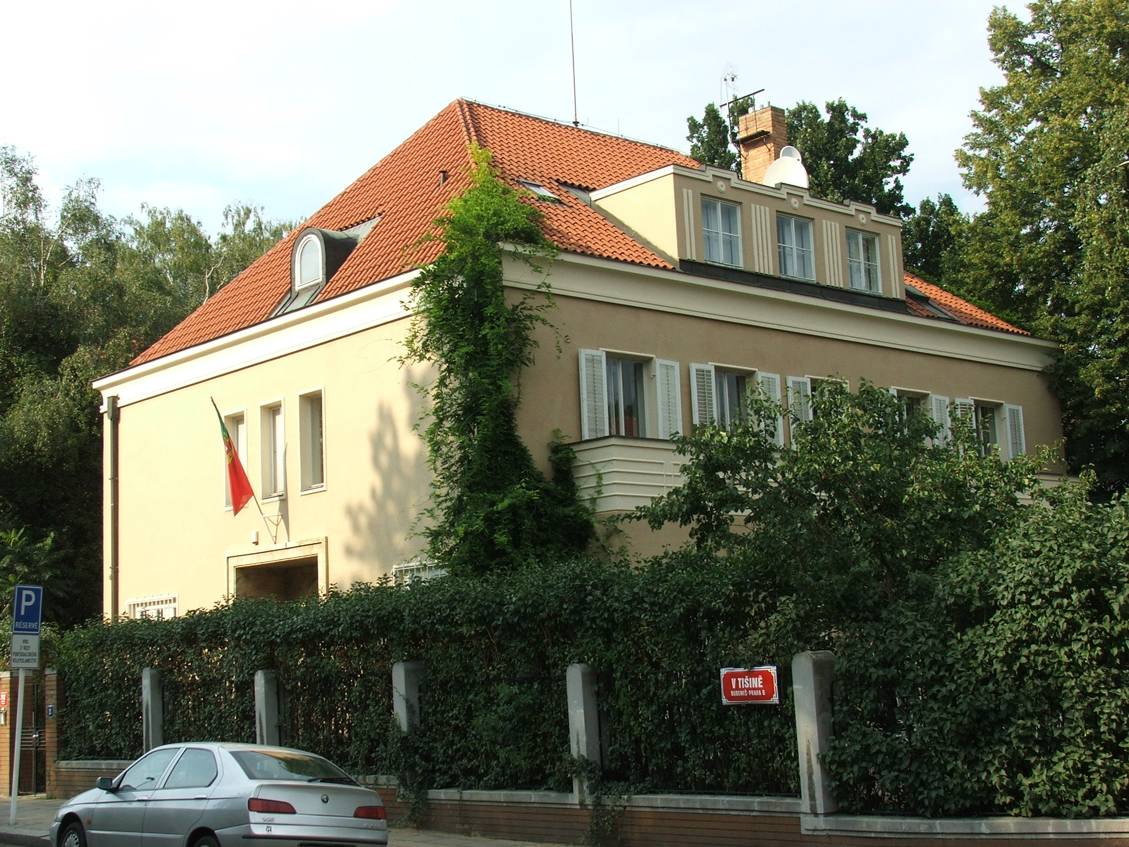 Residence of the Embassy of Portugal in Prague - Bubeneč, Czechia.